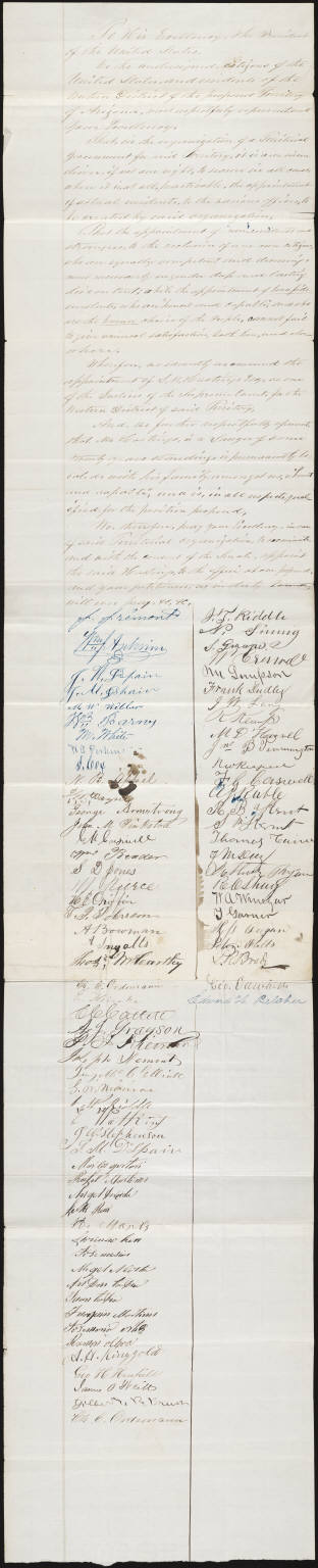 Petition by the residents of the western division of the proposed territory of Arizona, addressed to President Abraham Lincoln, and signed by John C. Fremont (among others). The handwritten manuscript petition asks that Lincoln appoint residents of the territory to provisional government offices. The petition also requests that attorney Lansford W. Hastings, a respected Arizona attorney, receive a government appointment as well.[1]